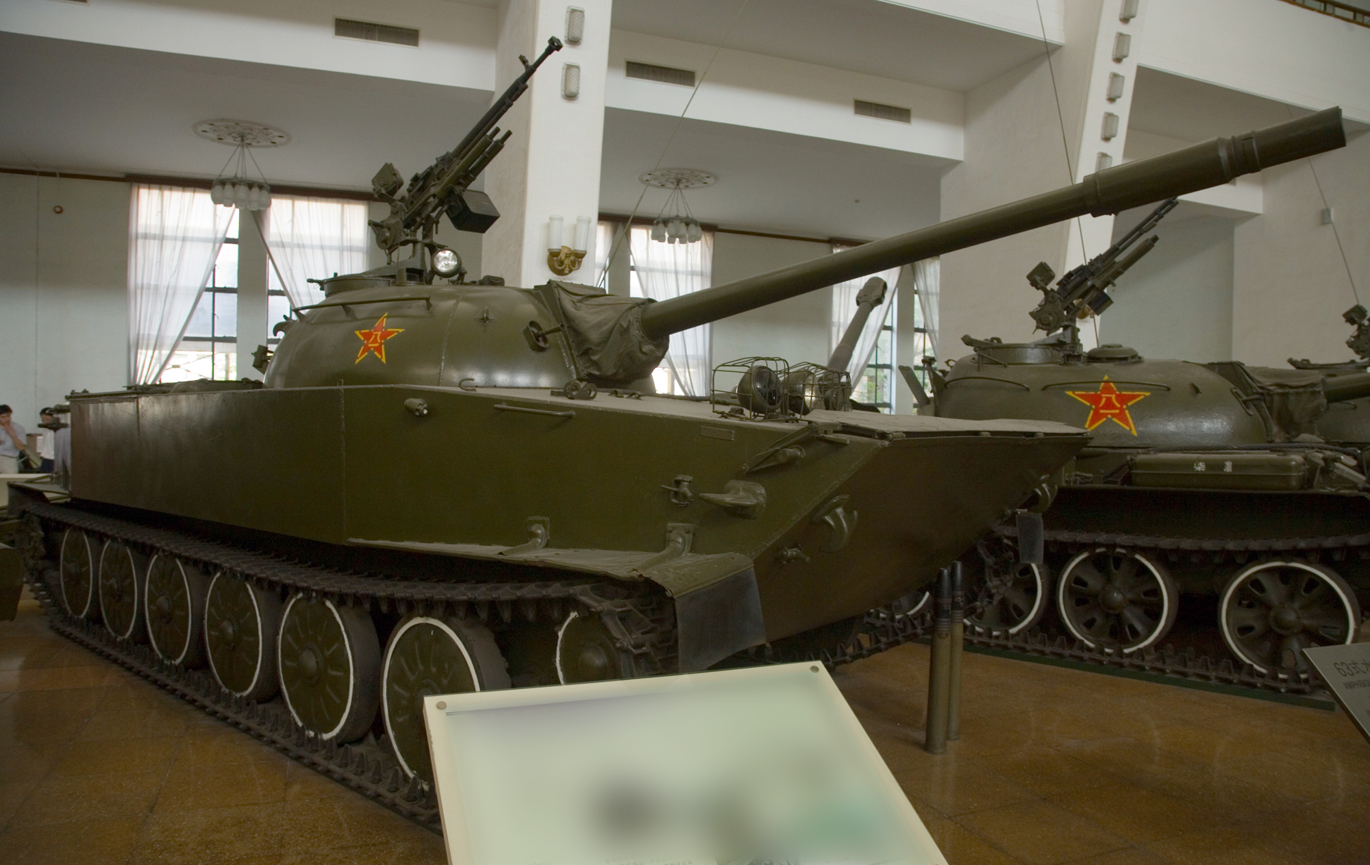 A Chinese Type 63 light tank seen from the front right at the Beijing Military Museum.